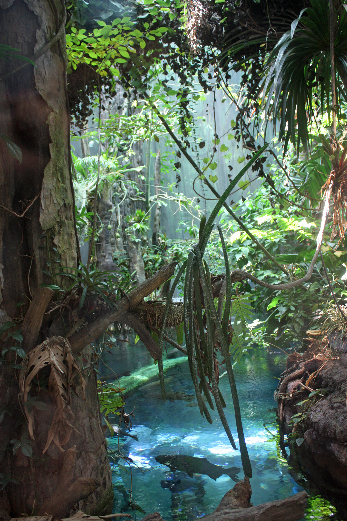 A view of the Amazonian flooded forest inside the rainforest exhibit in the California Academy of Sciences in Golden Gate Park, San Francisco, California. The rainforest exhibit is enclosed within a 90-foot diameter spherical glass dome inside the museum. Arapaima, arowana, catfish, piranha, cichlids and other fish species in the water can be viewed from a submerged acrylic tunnel.